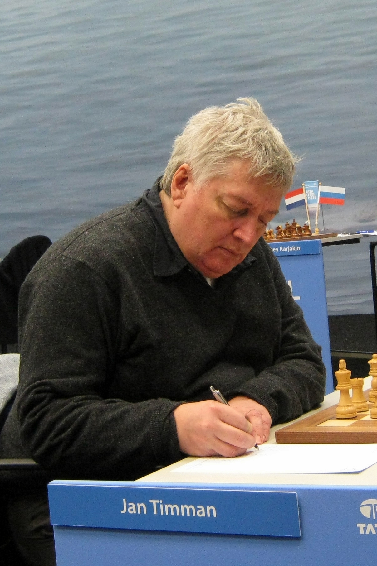 Jan Timman, chess grandmaster from the Netherlands